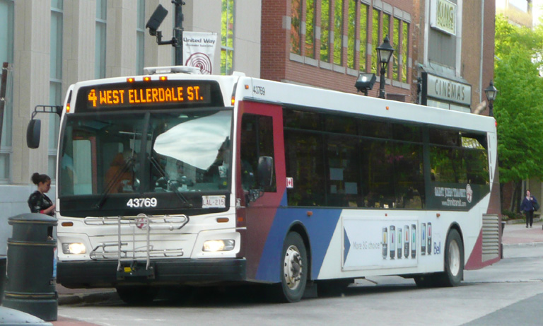 A Saint John Transit bus.